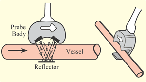 Schematic views of a transit-time ultrasound perivascular ultrasonic volume flowsensor. Using wide beam illumination, two transducers pass ultrasonic signals back and forth, alternately intersecting the flowing liquid in upstream and downstream directions. The flowmeter derives an accurate measure of the "transit time" it takes for the wave of ultrasound to travel from one transducer to the other The difference between the upstream and downstream integrated transit times is a measure of volume flow rather than velocity. Susan Eymann, Transonic Systems, Inc.